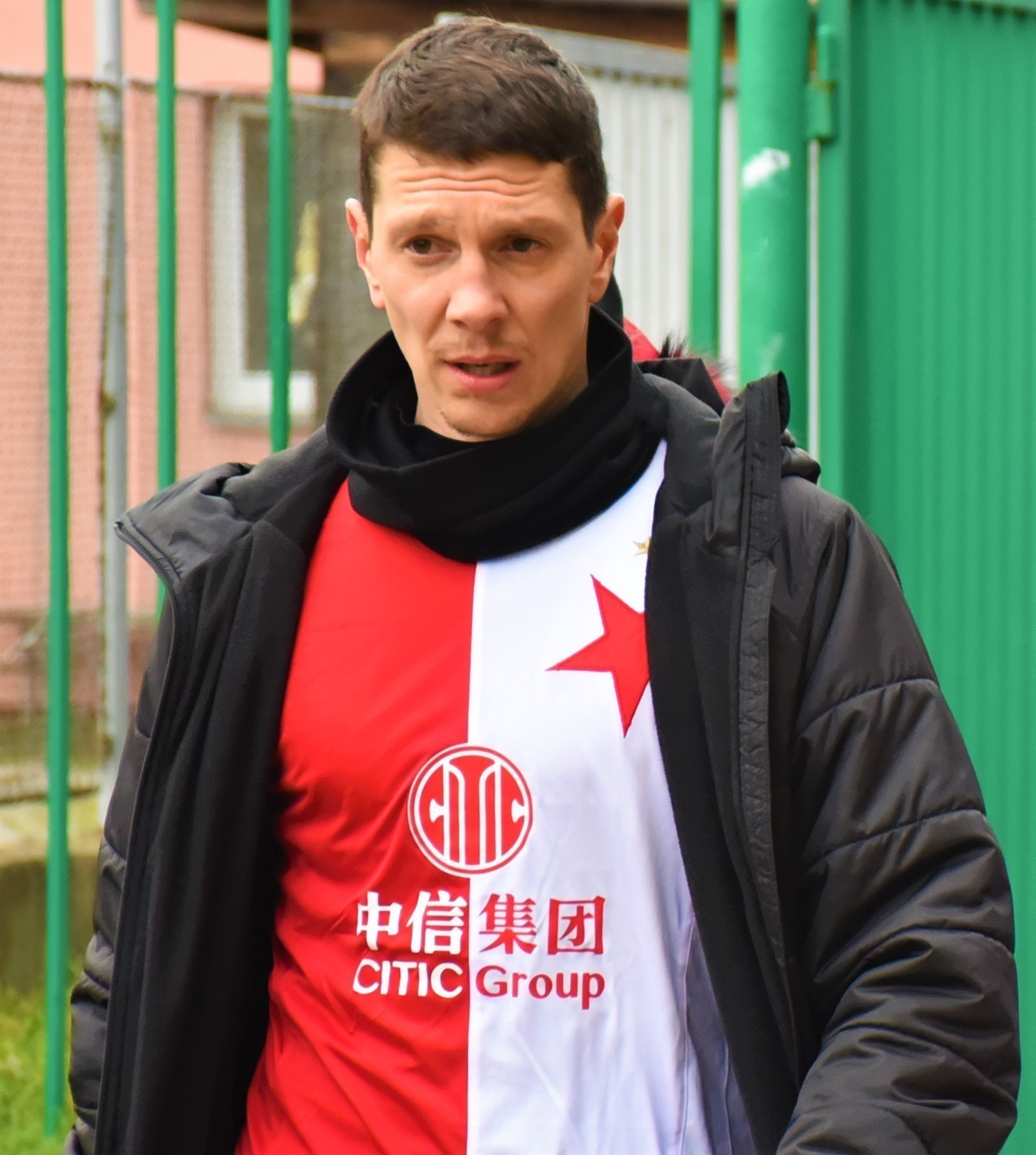 Jiří Bílek, Czech footballer